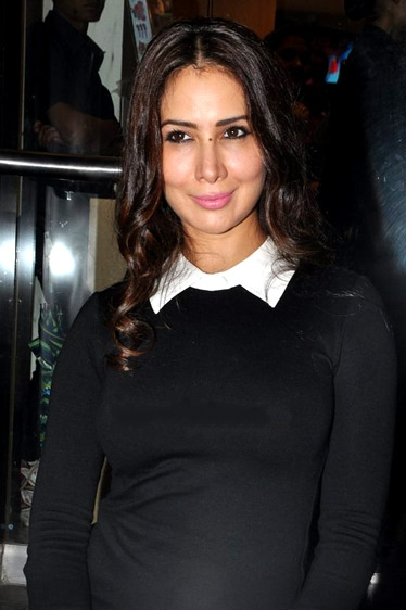 Kim Sharma at the launch Namrata Purohit's book 'The Lazy Girl's Guide To Being Fit'